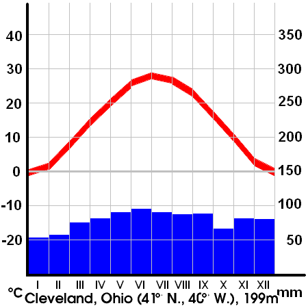 Maxium temperature and precip. in Cleveland, Ohio. Created using Data from WMO / NWS